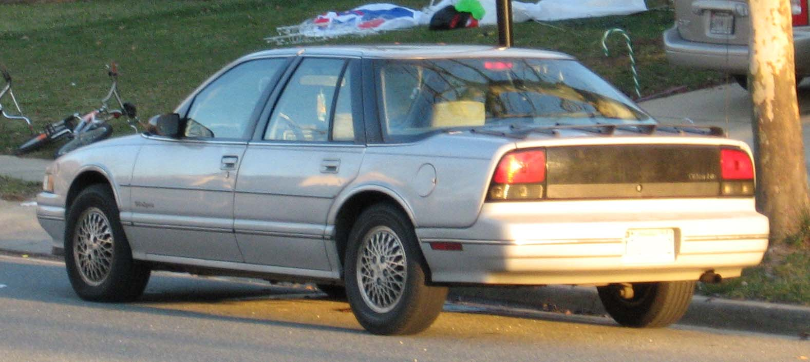 1988-1991 Oldsmobile Cutlass Supreme photographed in USA.